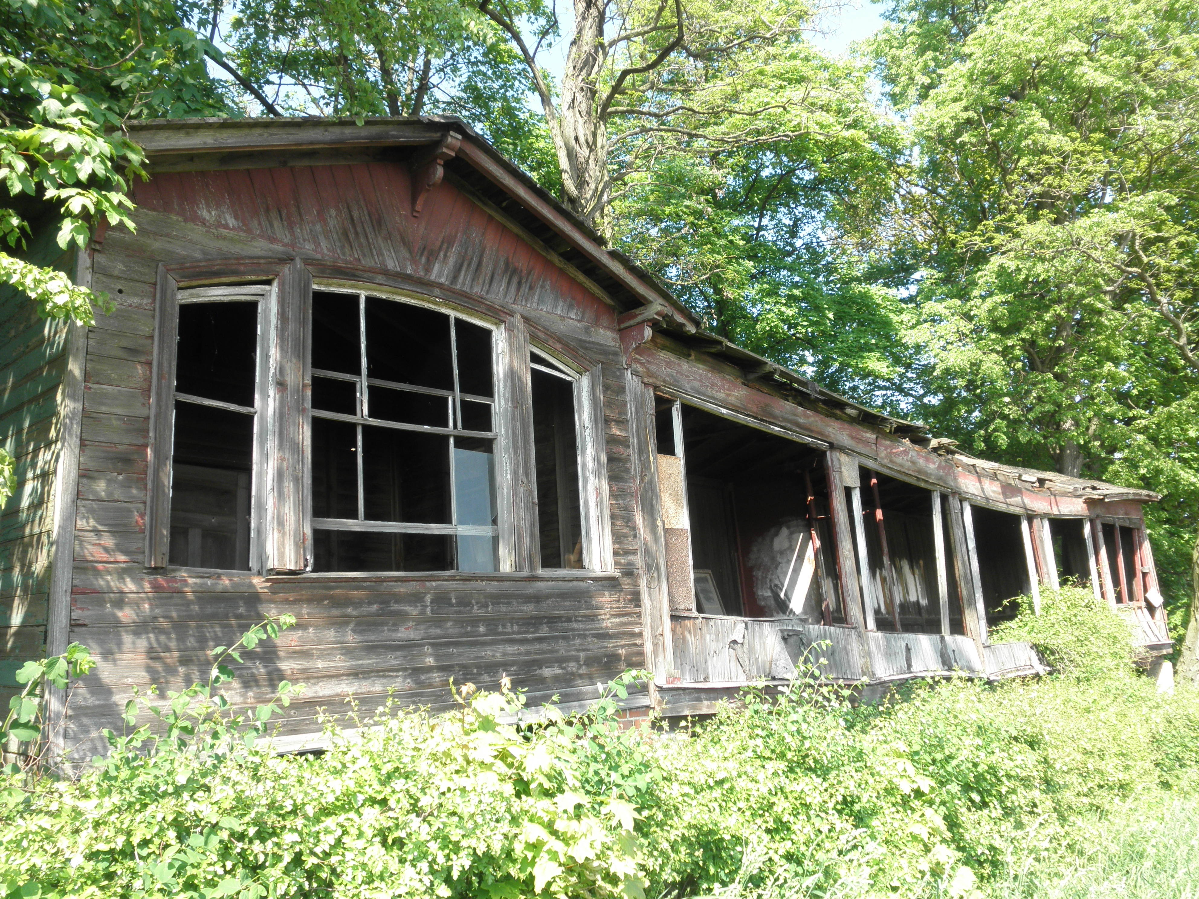 Sunbed hall in Tannenfeld (Löbichau) in Thuringia